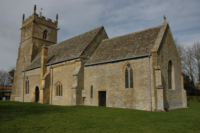 St Mary's parish church, Aston Somerville, Worcestershire, seen from the southeast